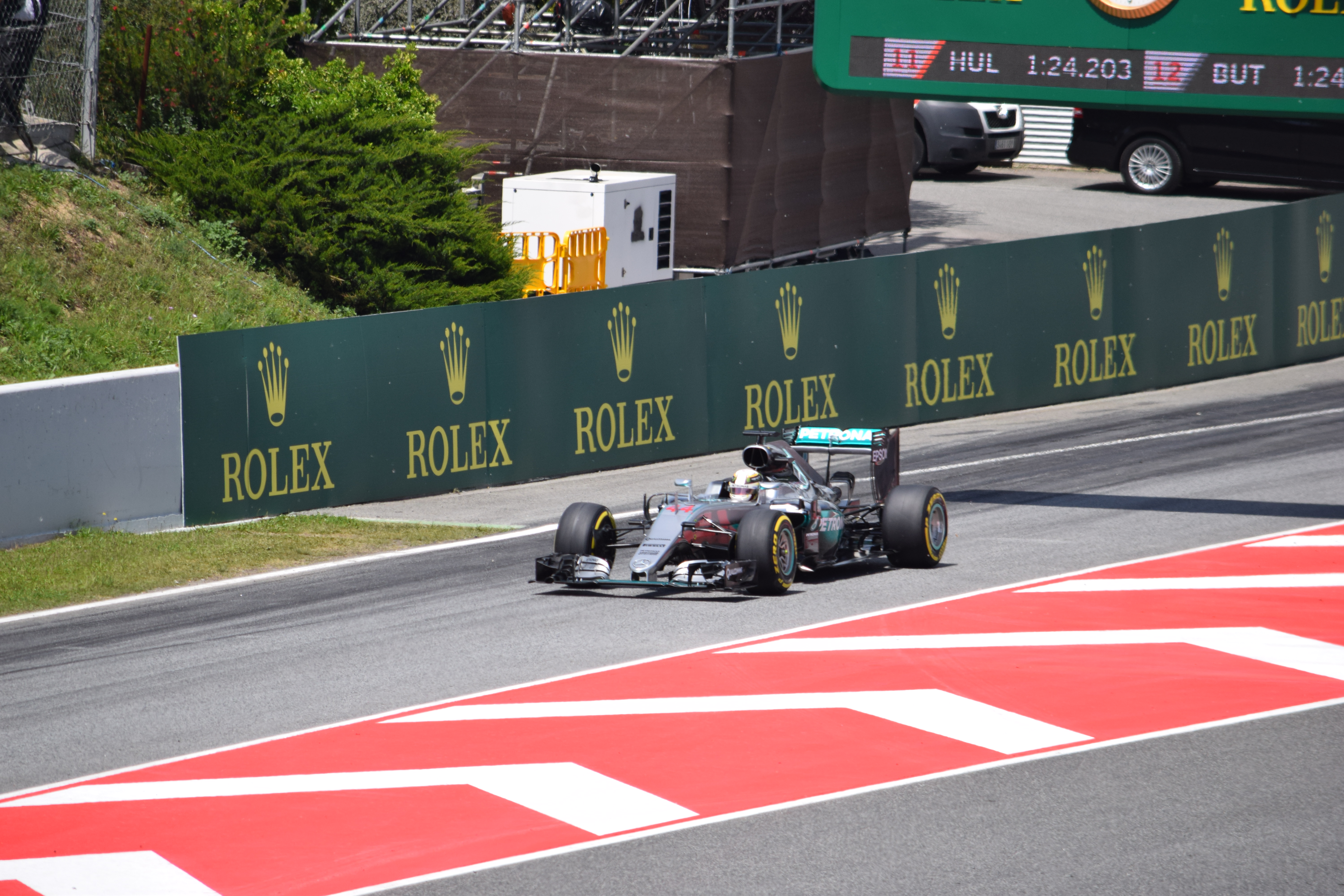 Lewis Hamilton at the 2016 Spanish Grand Prix